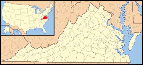 Locator Map of Virginia, United States